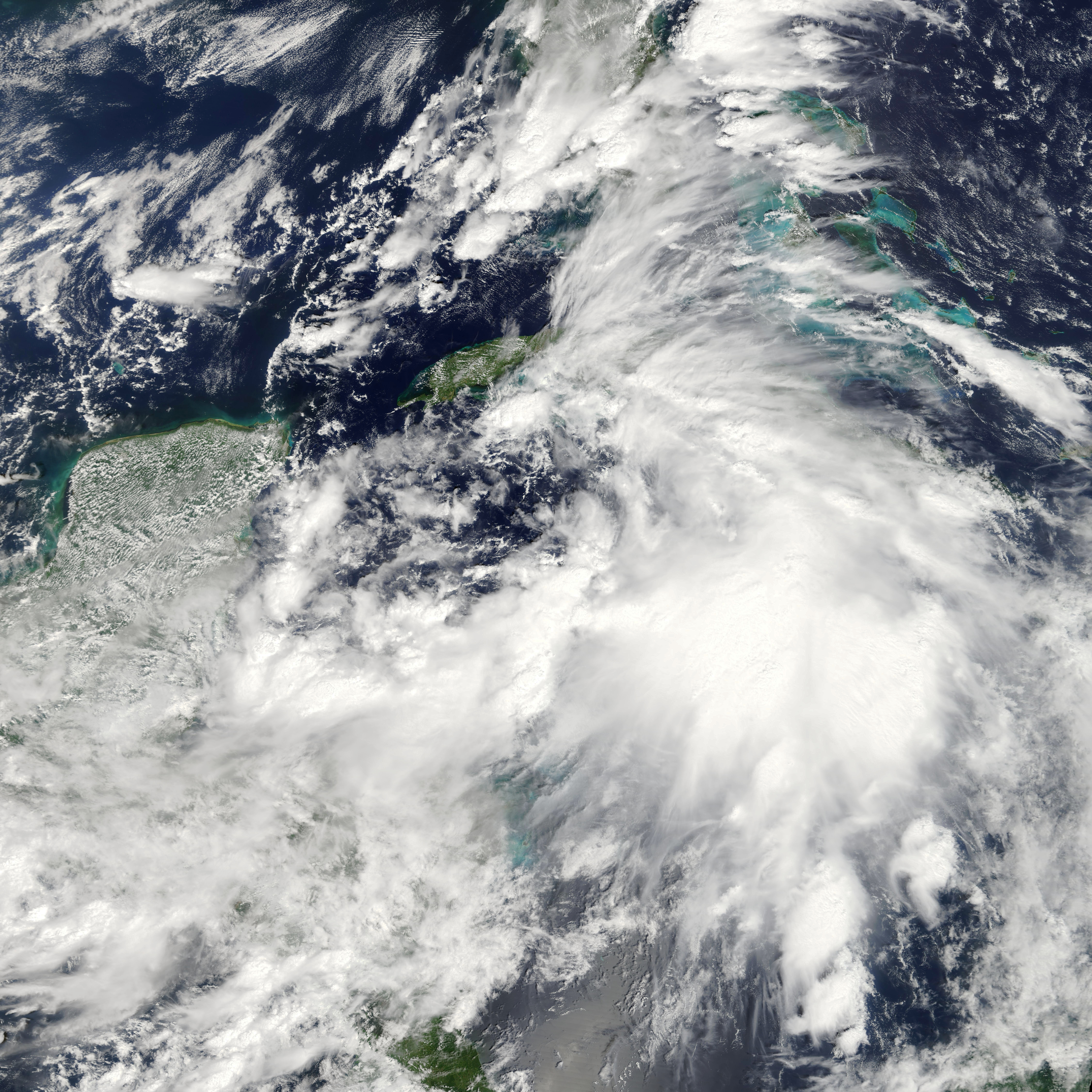 CAmerica_2_04 Subset - Terra 1km True Color image for 2010/271 (09/28/10)